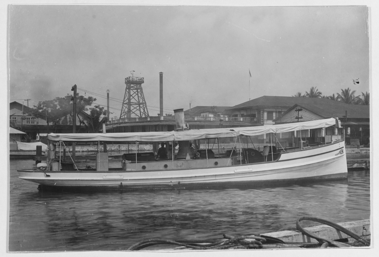 USS IONA (YT-107) at Cavite Navy Yard, Philippine Islands. Former ship of Spain seized by the USA during the Spanish-American War. Commissioned into the US Navy in the Asiatic Fleet. Destroyed in an air raid at Cavite Naval Base during the Japanese occupation of the Philippines in 1942.